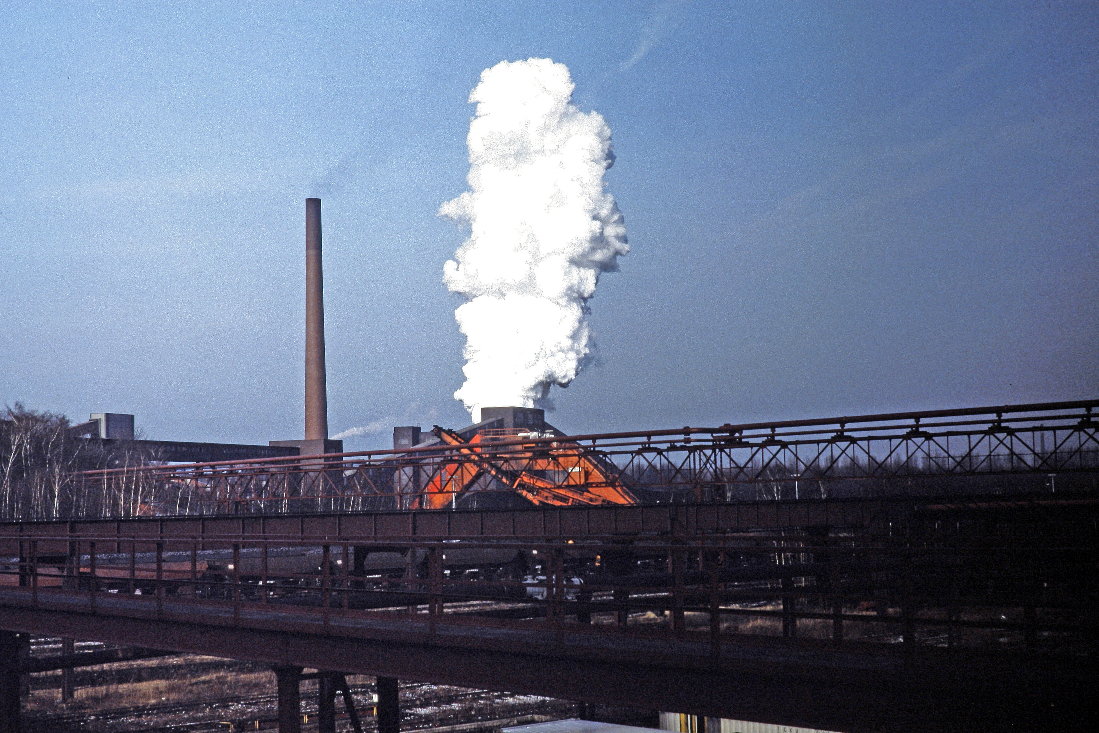 View onto Kokerei (coke plant) Zollverein from the area of mine shaft 12 during coke quenching. Half way the reclaimer of the former coal mixing bed.